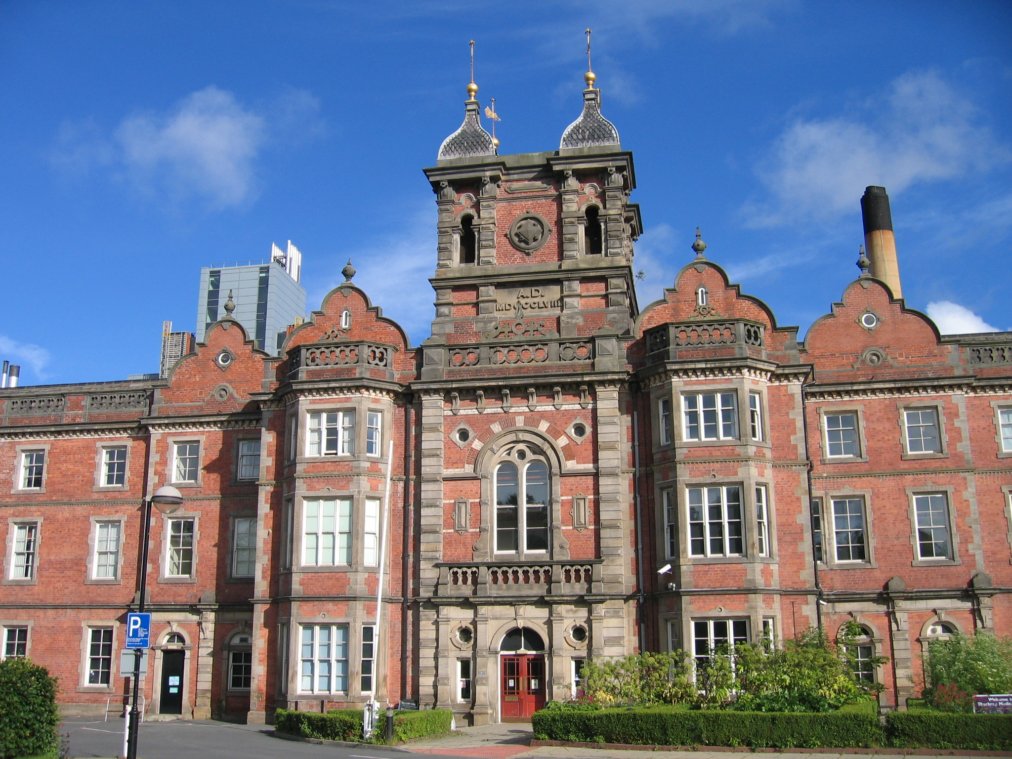 St James's University Hospital, Leeds. Thackray Museum. Former workhouse, 1858. A Grade II listed building